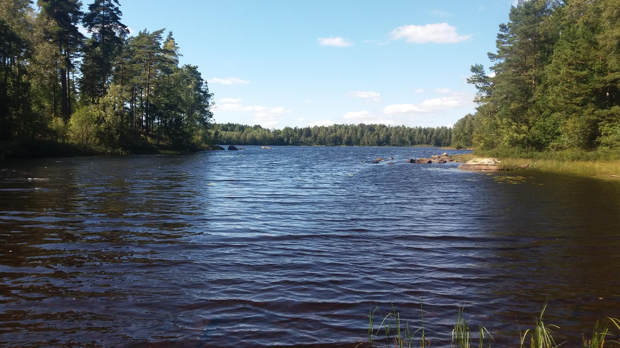 Image of the lake Södersjön, located near Kyrkhult, Olofström commune, Blekinge, Sweden